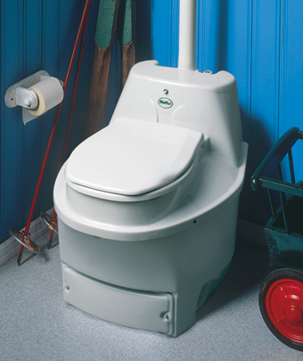 BioLet 20 Deluxe Composting Toilet